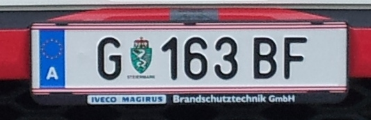 Special number plates for the career fire brigade